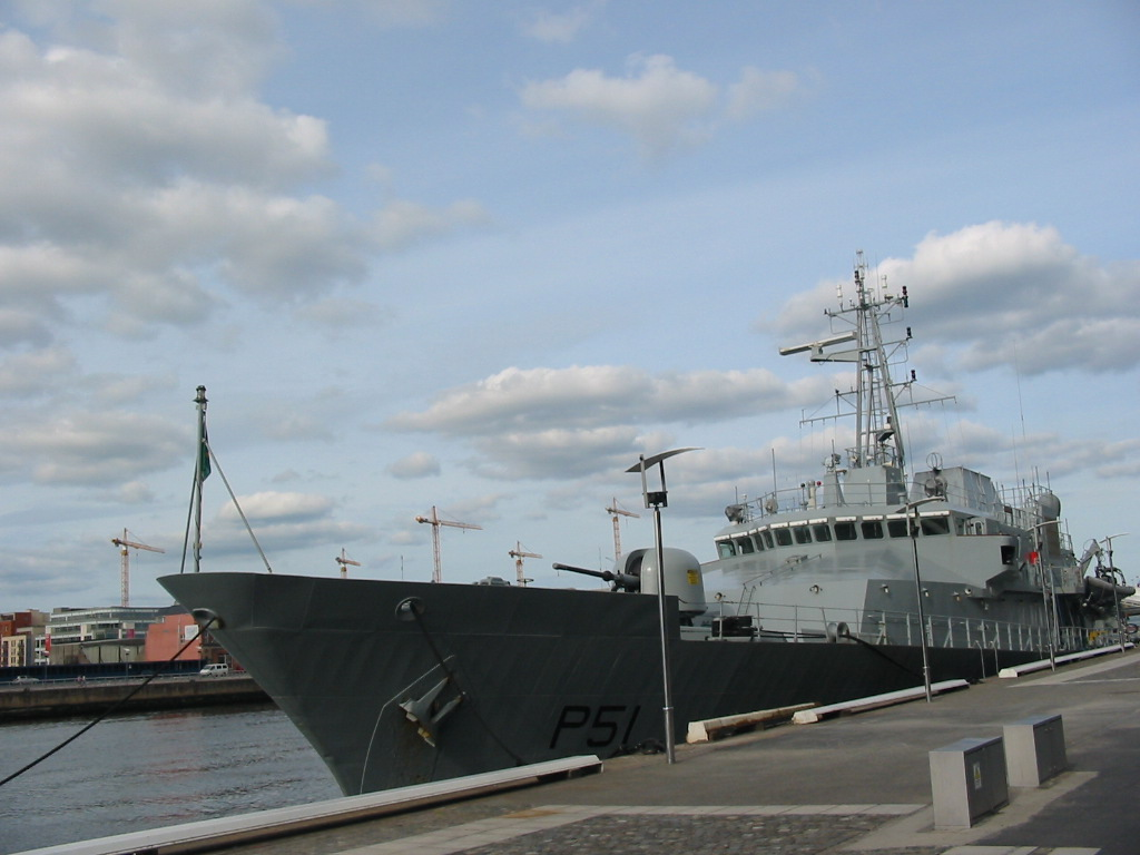 The Irish Navy's LÉ Róisín moored at Dublin’s docklands (13-07-2008).